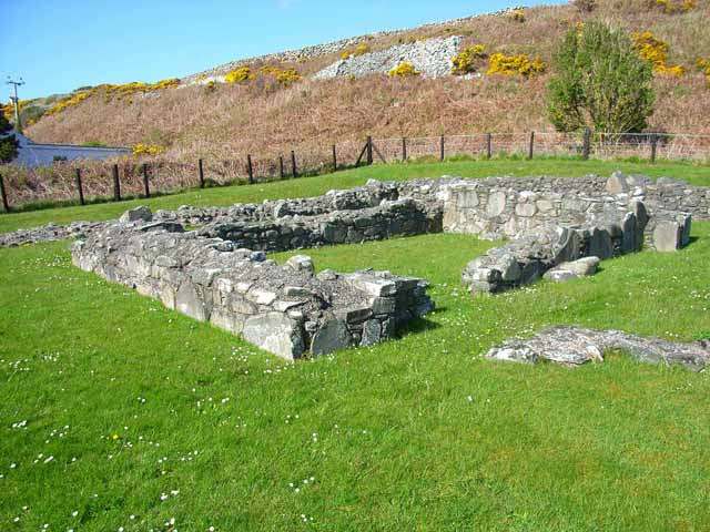 Chapel Finian. Standing by the A747 Glenluce to Portwilliam road. Dating from the 10th or 11th century, this chapel was probably used by Irish pilgrims who landed nearby on their way to the shrine at Whithorn.